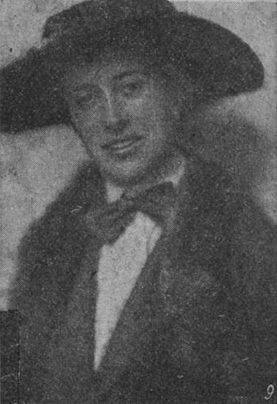 Gra Rueb, portrayed in the Dutch magazine Het Leven, 1919